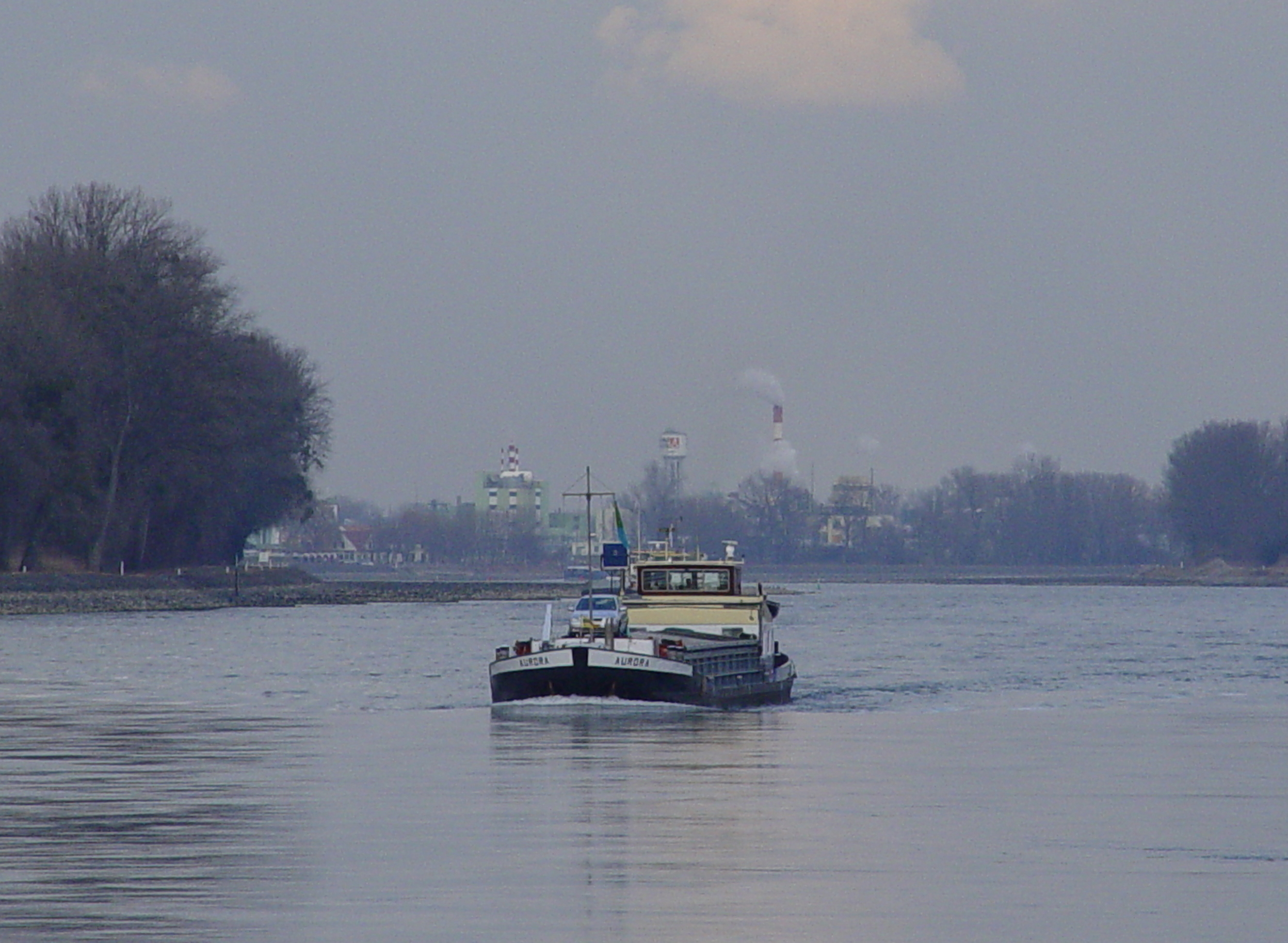 The river Rhine near Rastatt. Fotograf: Martin Dürrschnabel Kamera: Sony DSC-F717